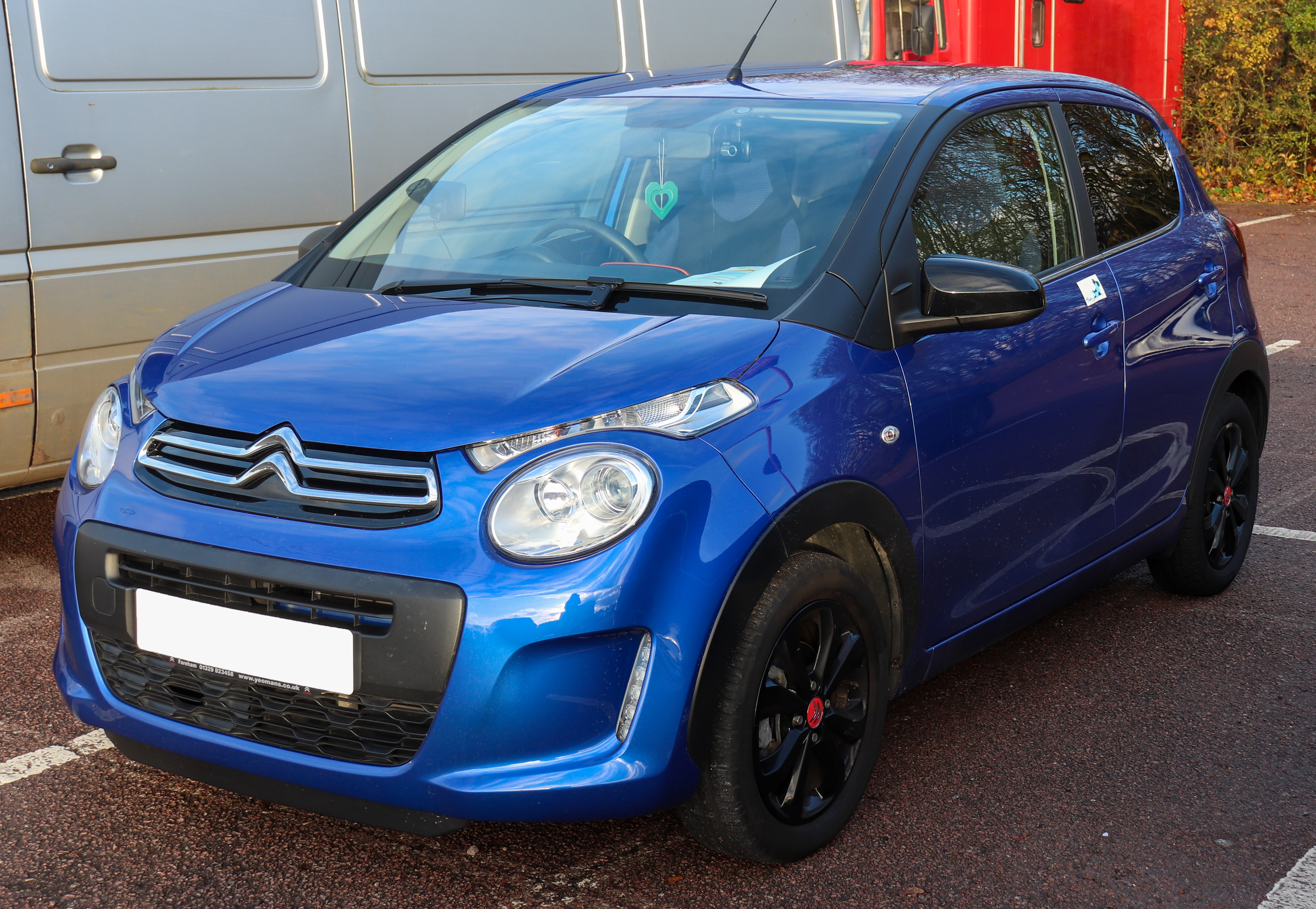 2018 Citroen C1 Urban Ride 1.0 Front Taken in the NEC Car Park, Birmingham